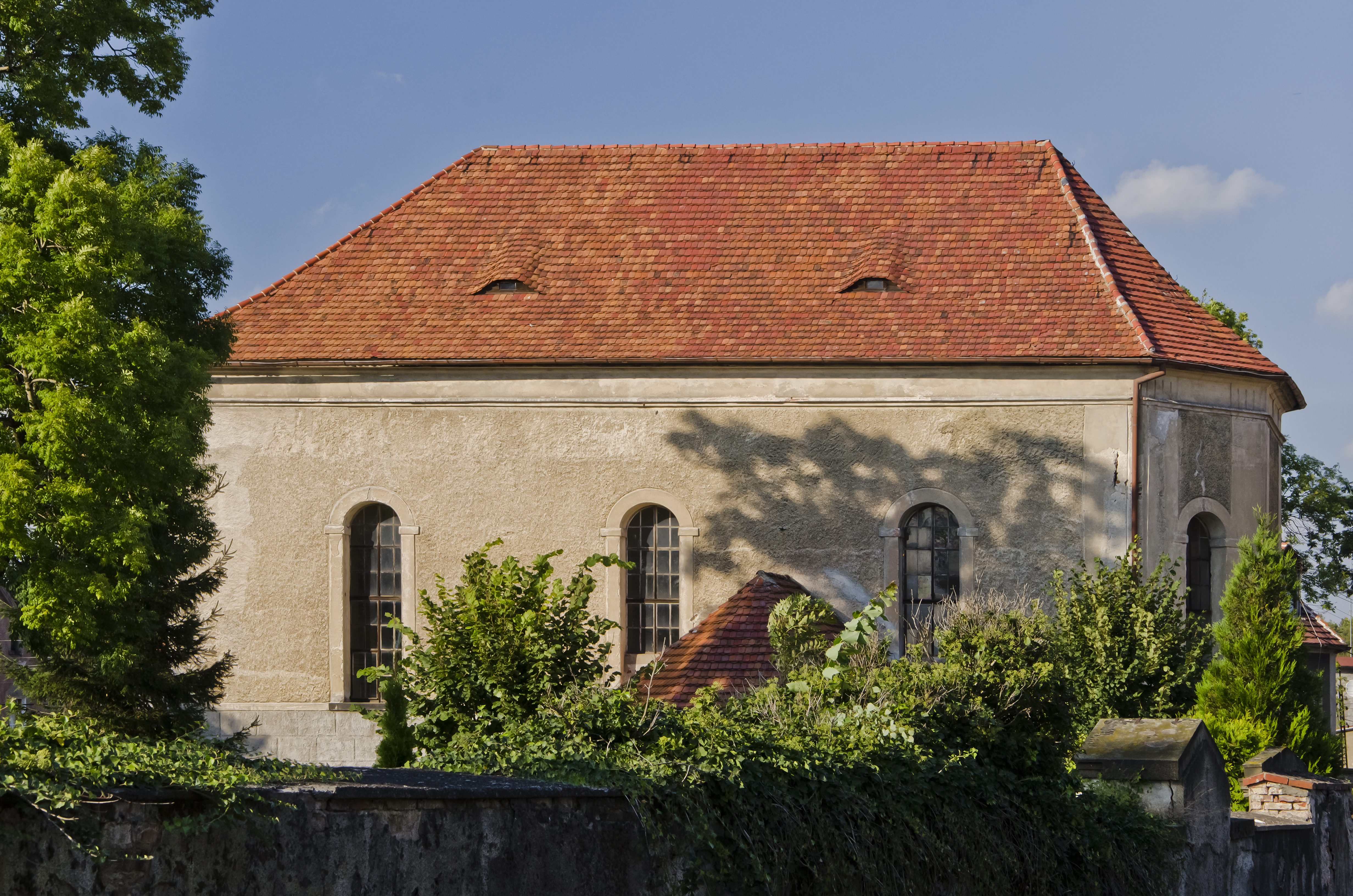 Cemetery chapel of Saint Barbara. Mirsk. Poland. 07.2008.